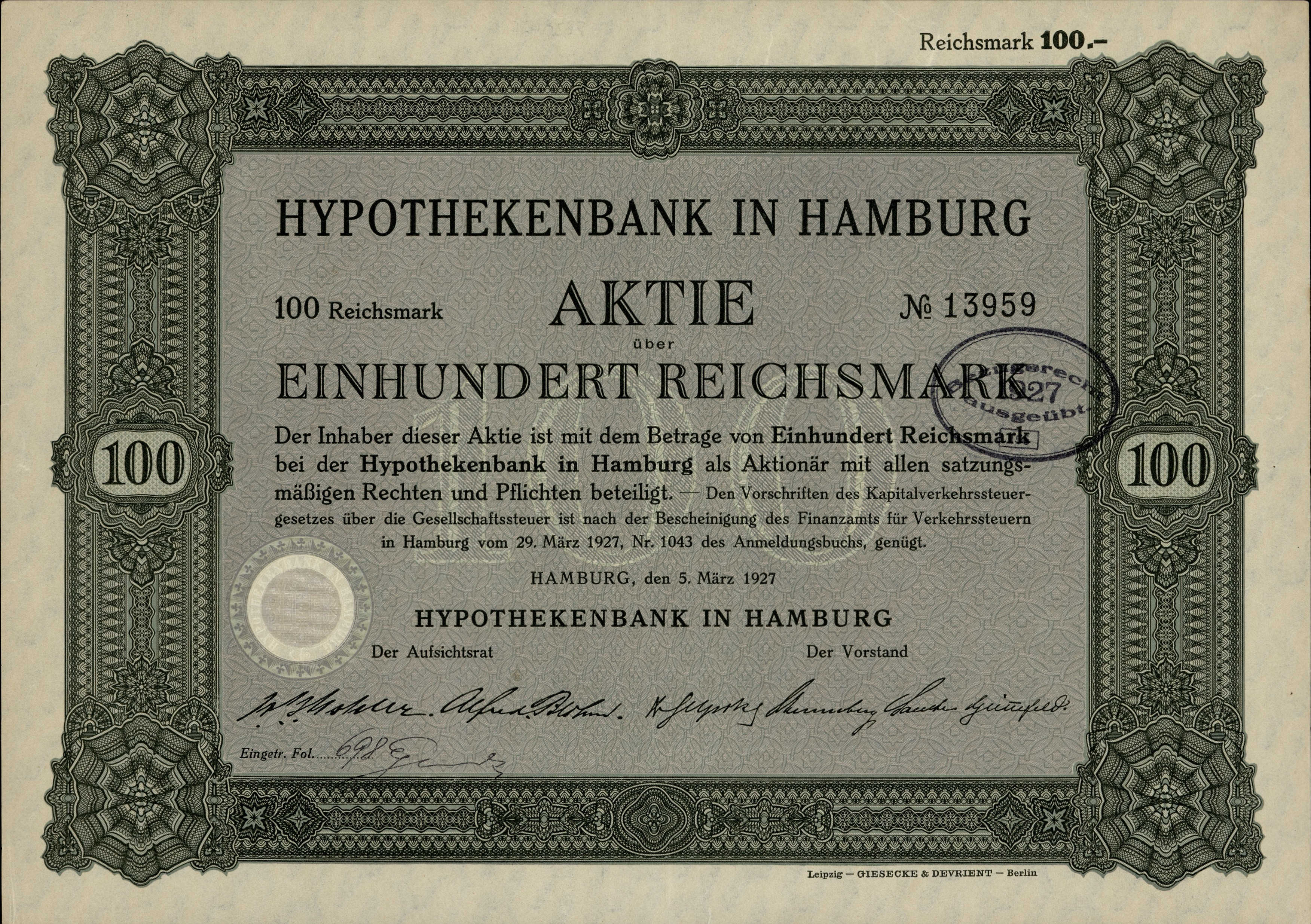 Share of the Hypothekenbank in Hamburg, issued 5. March 1927